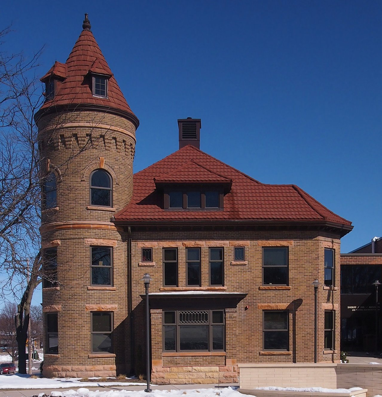 Rice County Jail, 128 3rd St NW, Faribault, Minnesota, USA. Viewed from the south.